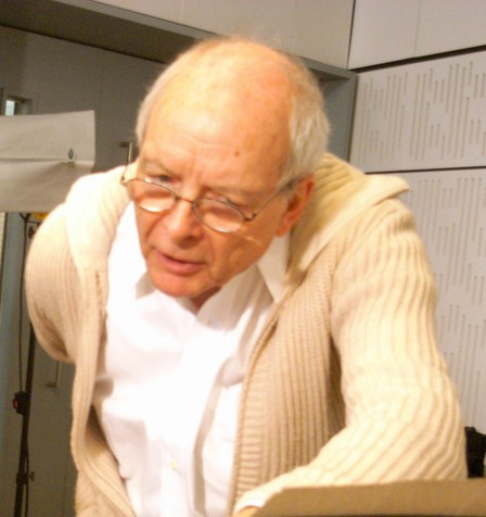 Christopher Hogwood, January 6, 2012